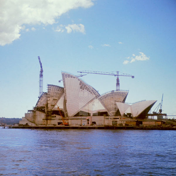 Taken by my grandmother in 1966.